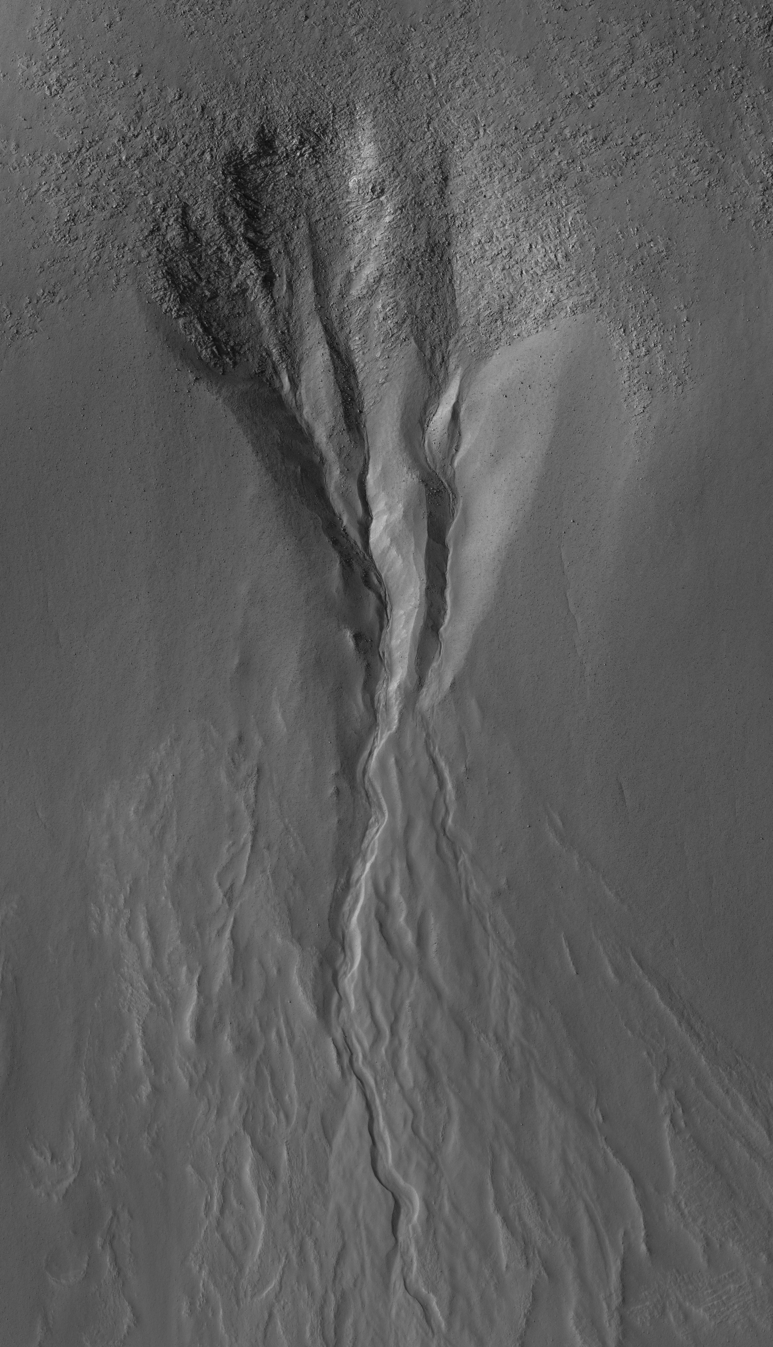 A gully on a mound in Nereidum Monte on Mars photogprahed by the HiRISE instrument aboard Mars Reconnaissance Orbiter.